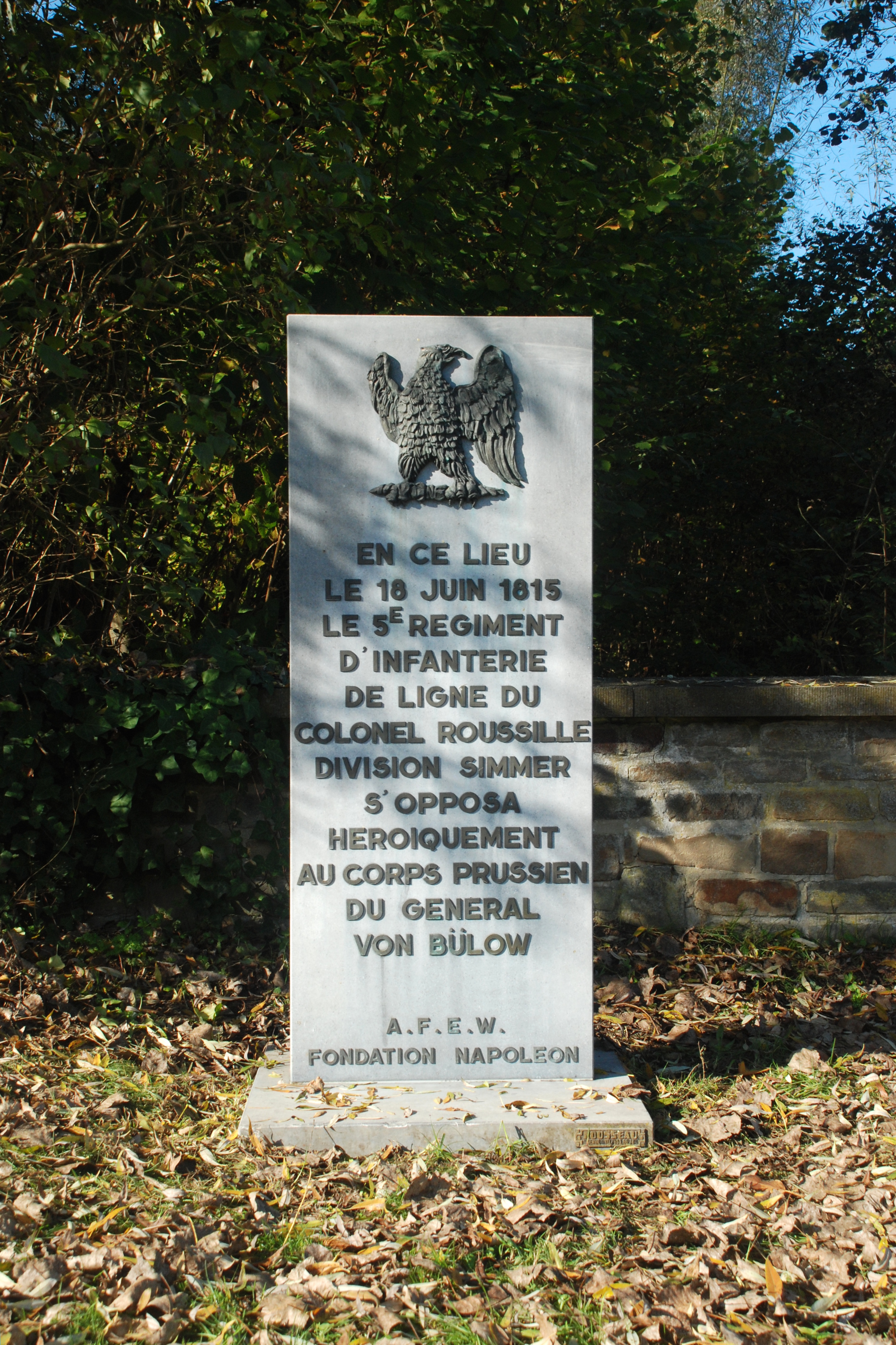 Located at the junction of Rue Là Haut and Rue d'Anogrune in Plancenoit